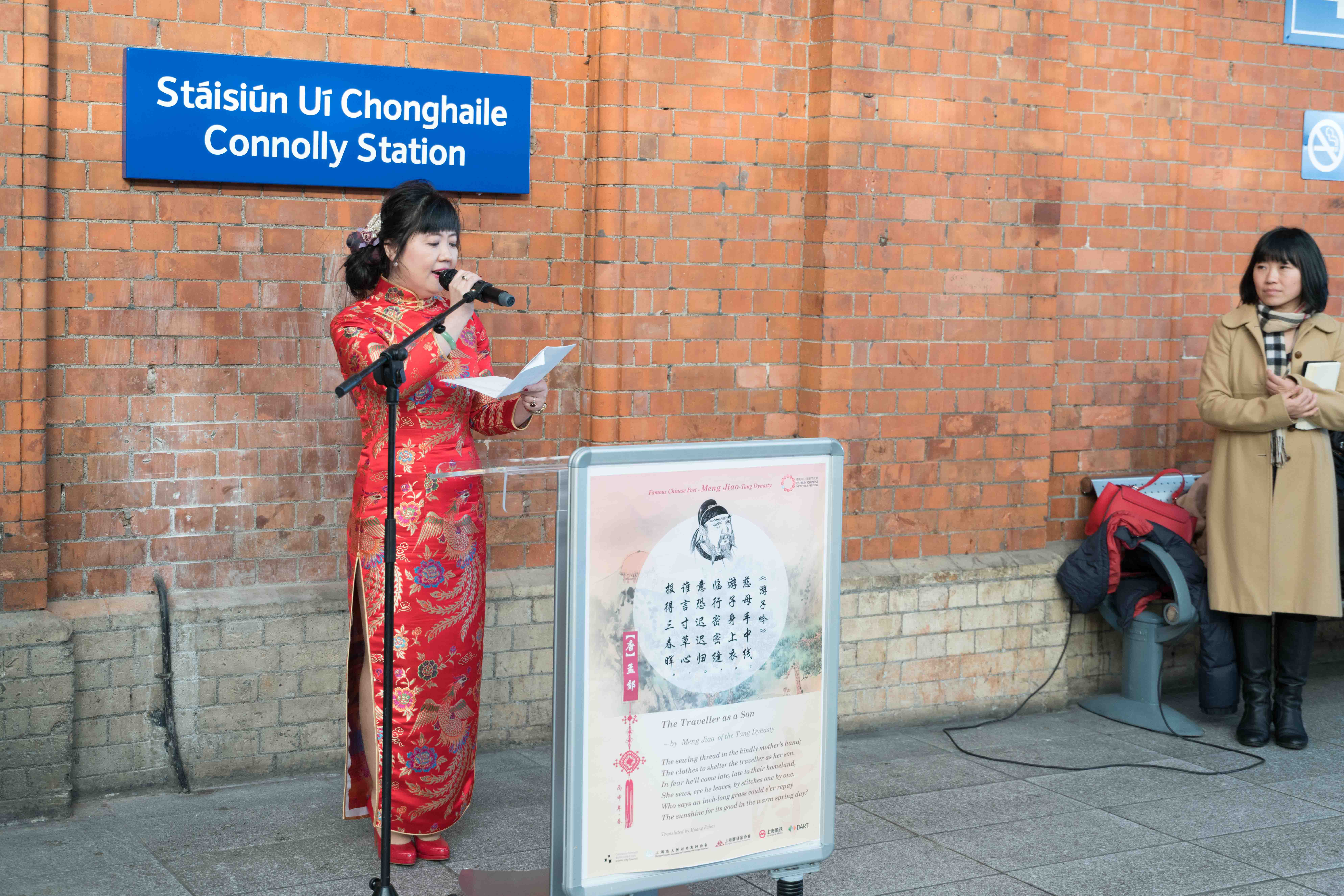 This morning I was on my way to Howth when a nice Chinese lady, thinking that I was a press photographer, invited me to photograph the ‘Official Chinese Delegation’ so I took the opportunity even though I did not have an ideal lens [my fall-back excuse for not being a good portrait photographer]. A delegation from the Shanghai Metro were in Connolly Station this morning as a two-week-long tribute to Chinese poetry was launched. The China Cheongsam Association of Ireland performed traditional Chinese music and dance on platform four from 11am, and there was some Chinese cuisine samples for passengers who got there early as i was planning to have lunch in Howth I did not try the food. Last year Chinese commuters in the city of Shanghai were treated to the poetry of W.B. Yeats as they travelled on board the local Metro service and as they passed through various stations as part of the Yeats 2015 celebrations. This year CIE will continue the relationship by displaying famous Chinese poems on board the DART and at Stations during February to mark Chinese New Year. The poems will be displayed in Chinese and English. For more information relating to the Chinese New Year here in Ireland please visit